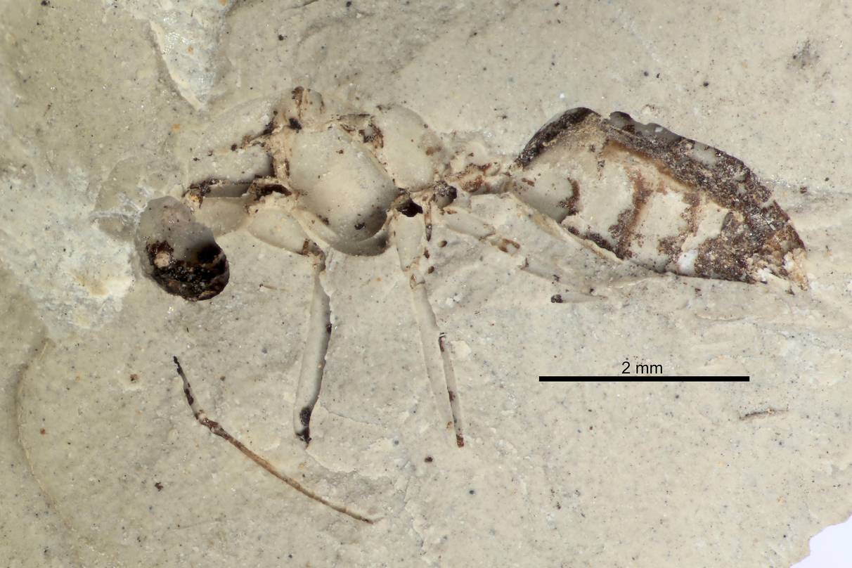 Profile view of a Camponotus cockerelli male, (Formerly identified by H. Donisthorpe as Oecophylla sp.). Natural History Museum, London specimen BMNHP17280. Natural History Museum, London, United Kingdom. Late Eocene; Bembridge Marls, Bouldnor Formation; Isle of Wight, England. United Kingdom.